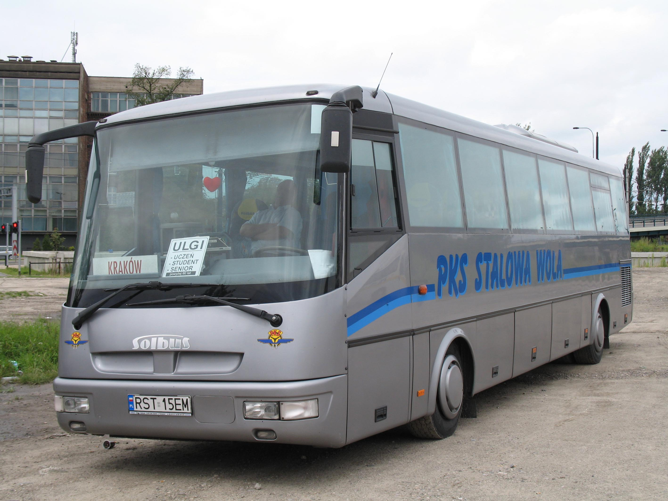 Solbus C 10,5 bus (#SW40626) in Kraków, Poland. Built 2004, PKS Stalowa Wola operator.